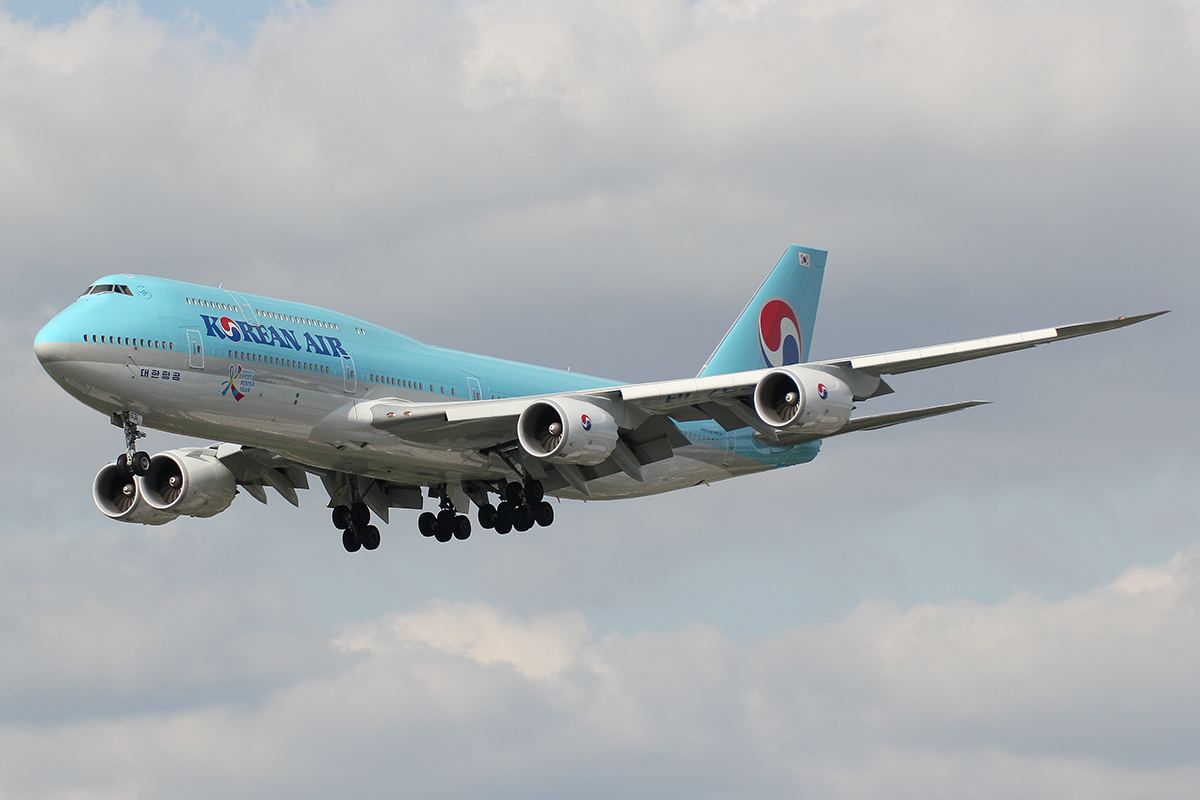 HL7631 Boeing B747-8B5 @ Heathrow 03/06/2017